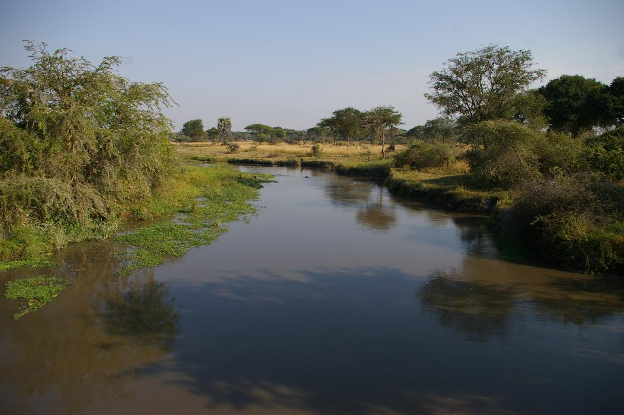 Taken from Ikuu bridge